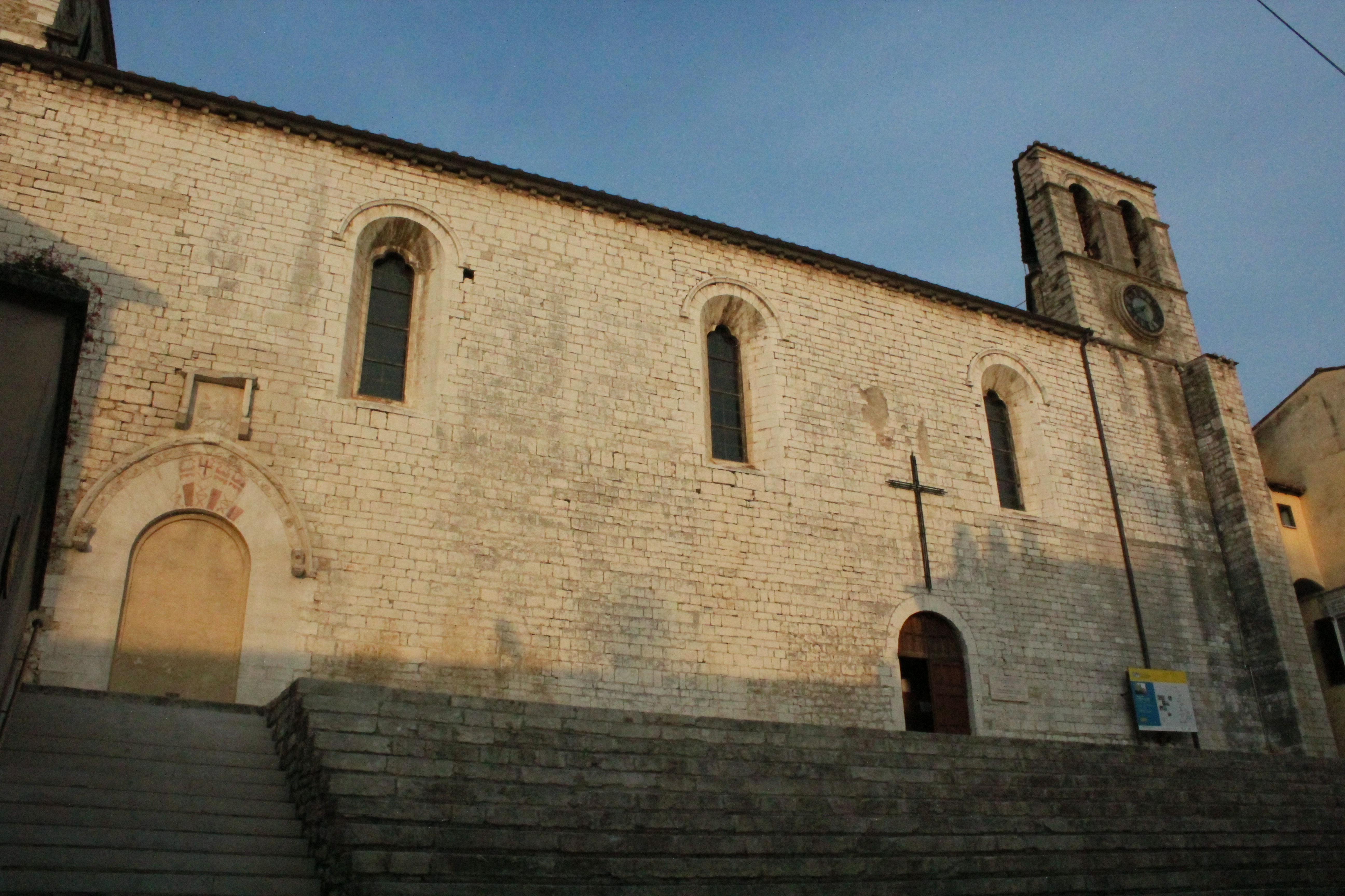 Church of San Francesco, Piediluco, hamlet of Terni, Province of Terni, Umbria, Italy